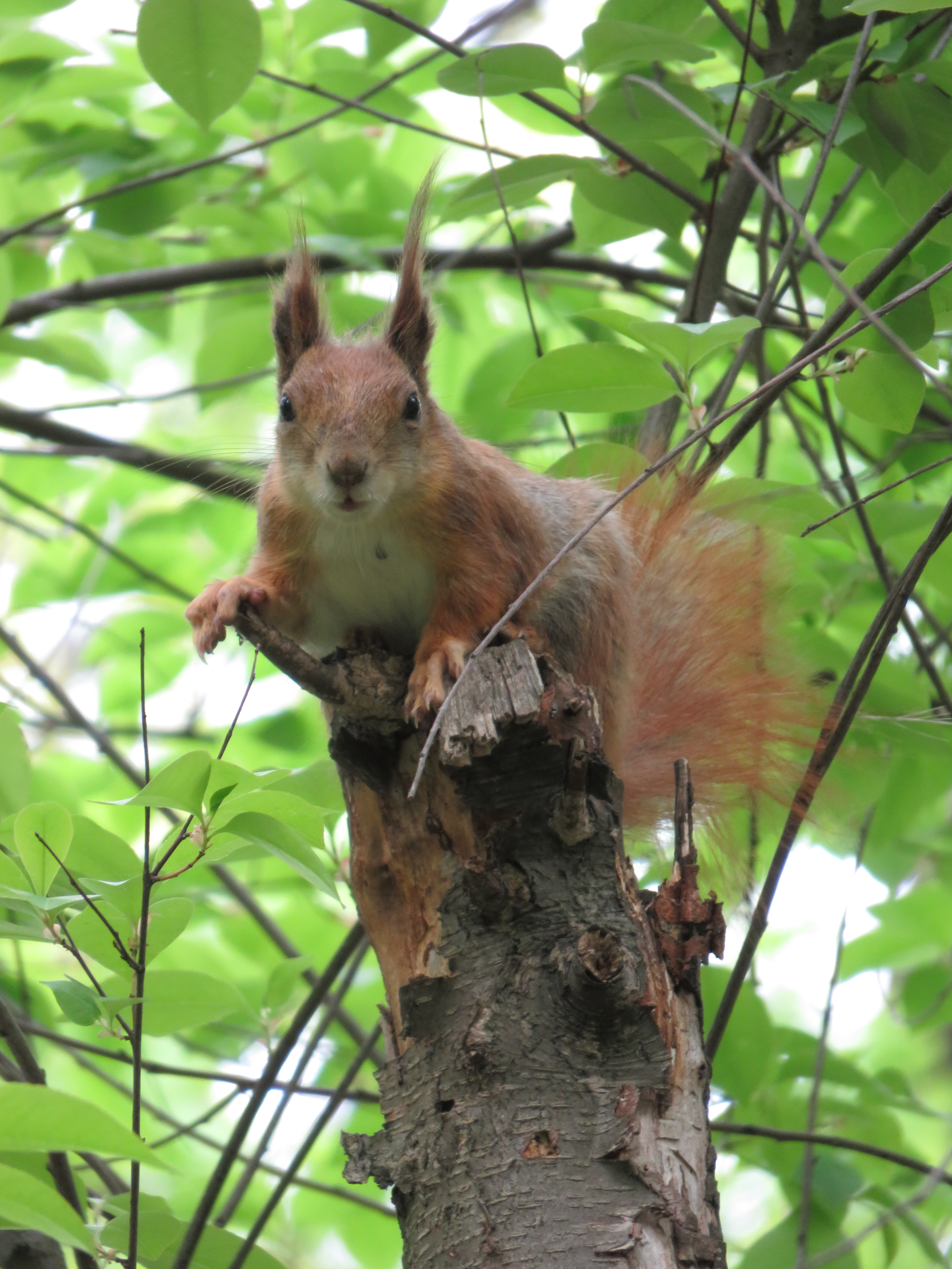 Red squirrel (Sciurus vulgaris) in Rylskyy park, Kyiv, Ukraine